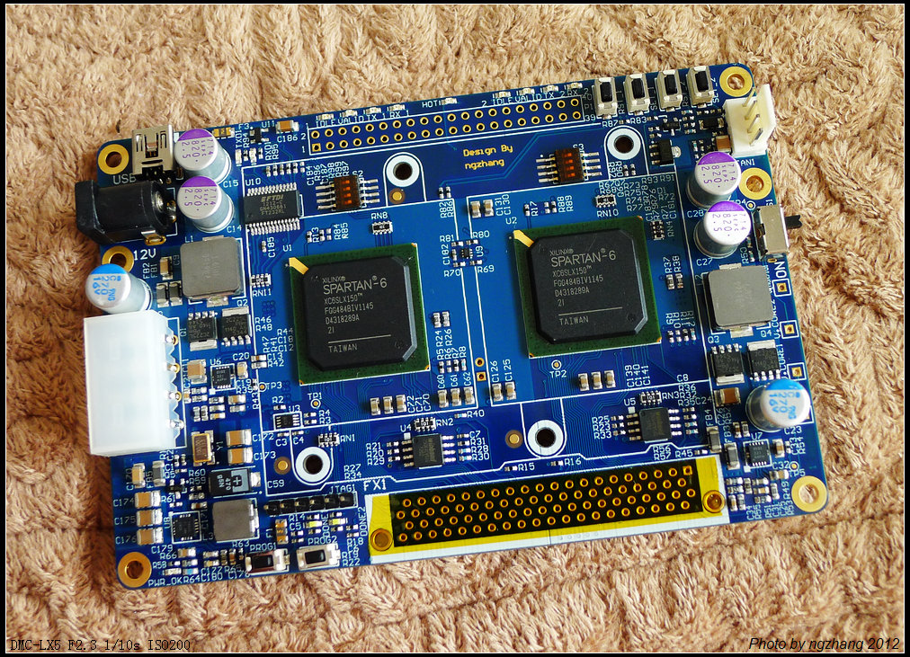 Lancelot-A FPGA based bitcoin mining board